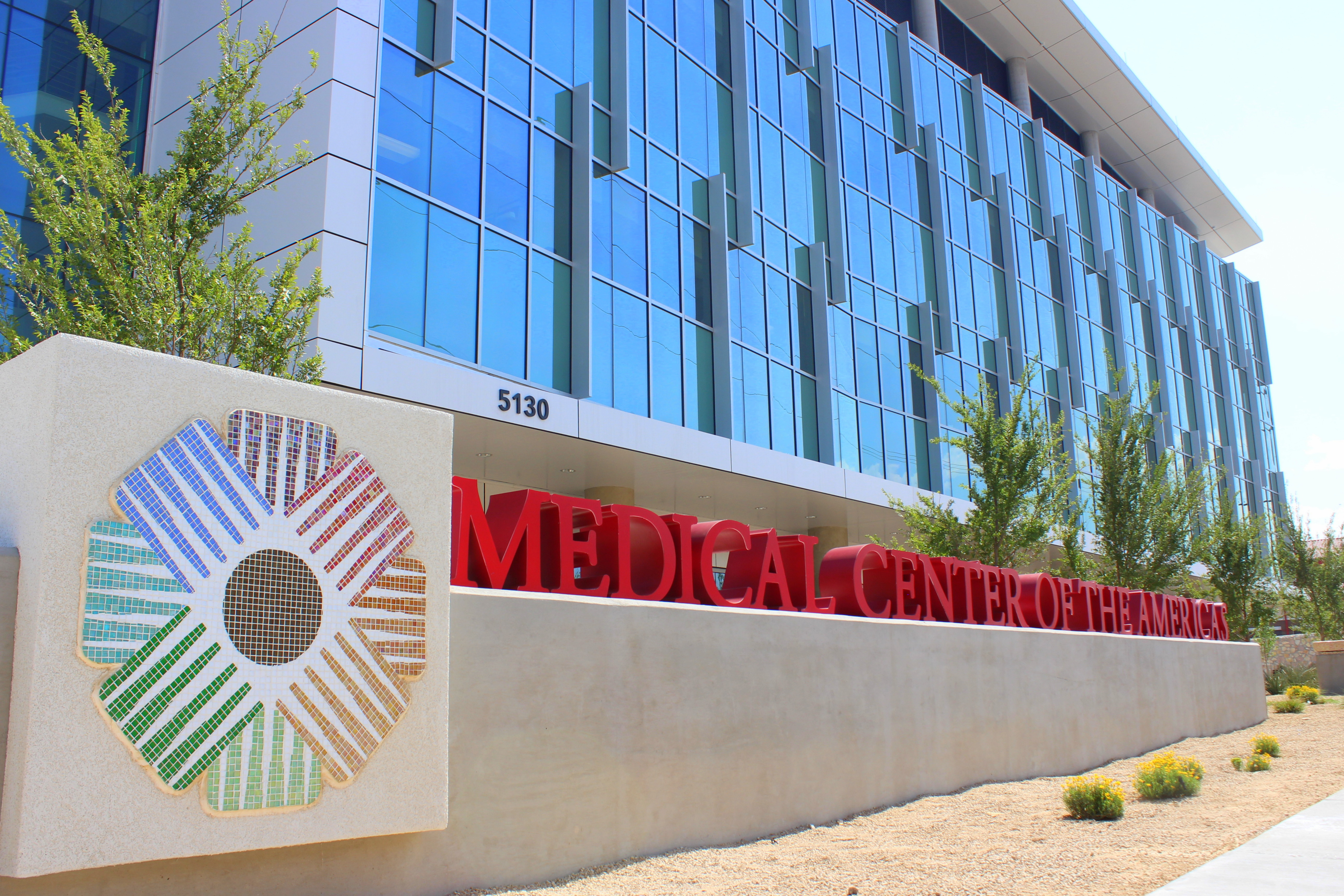 Medical Center of the Americas, in El Paso, Texas, United States.